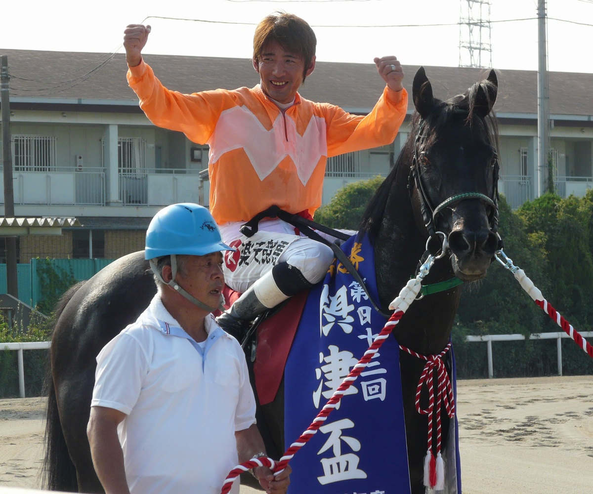 Takeshi-Kimura20110815